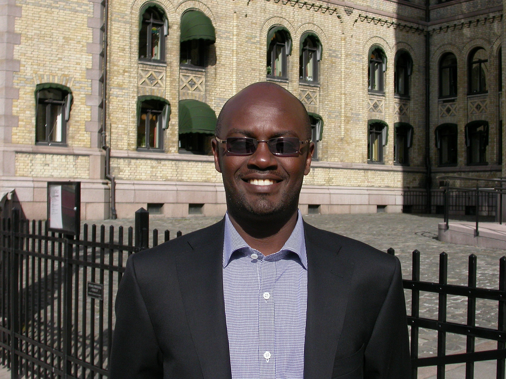 Andrew Mwenda in front of the Norwegian parliament.